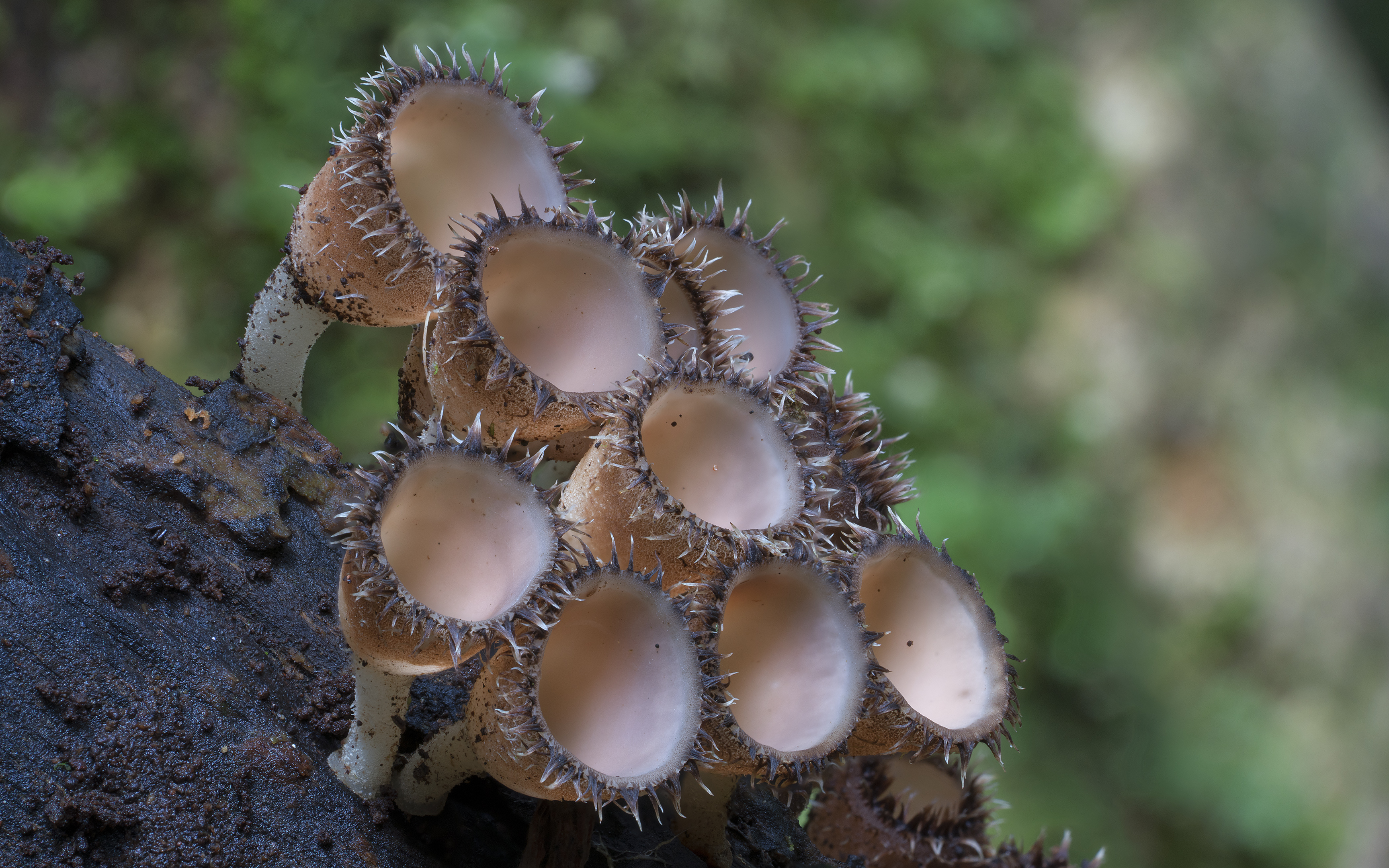 Cookeina insititia (Berk. & M.A. Curtis) Kuntze Image location: Terania Creek, New South Wales, Australia Not sure what this is, apart from a cup fungi. It is similar to Cookeina. I should add that this was found during a very hot humid period in early January (max temps up to 35 with mins above 20). There had been rain a few days ago, but most fungi were not fruiting (because of the heat?). The proposed name of Microstoma insititium does seem possible as the only record I can find of that fungi is Vanuatu, and I think this fungi has to be tropical, given that it fruits in the heat. Recognized by sight For more information about this, see the observation page at Mushroom Observer.